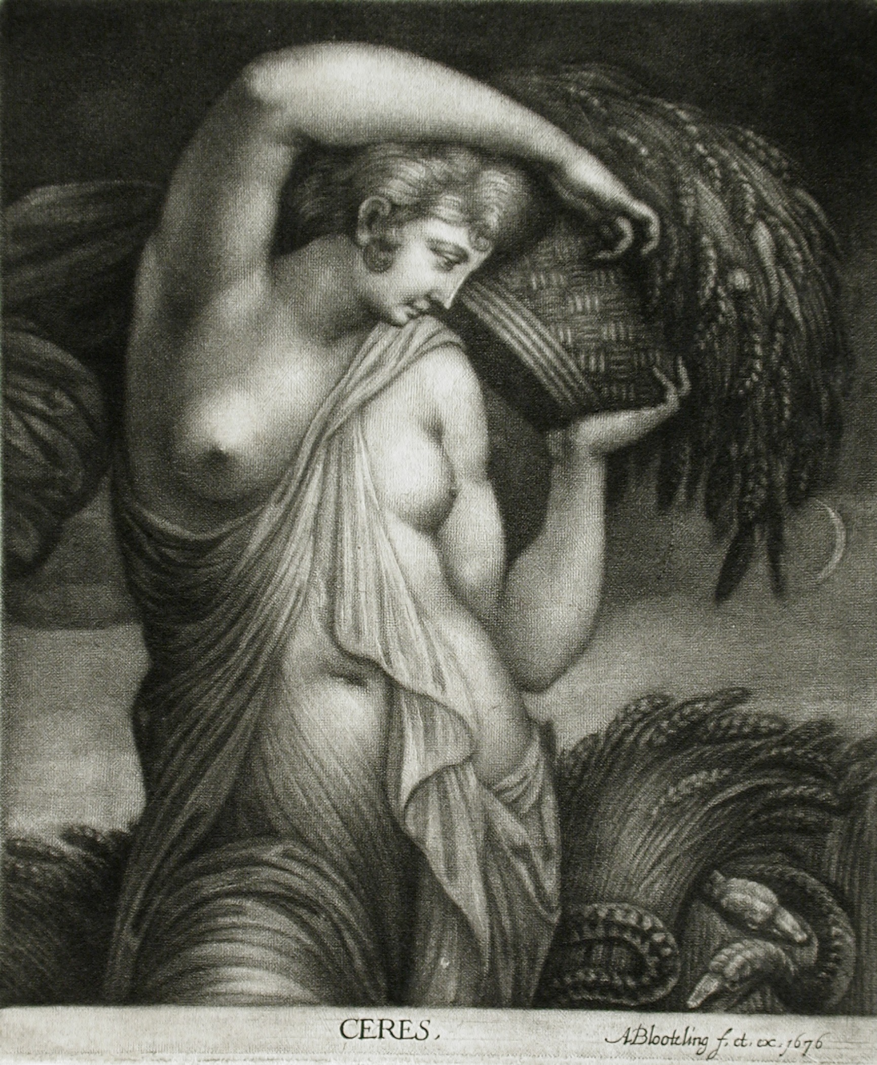 Holland, 1676 Prints; mezzotints Mezzotint Gift of Dr. and Mrs. Richard A. Simms in memory of Ernest Jacobson (M.75.125) Prints and Drawings